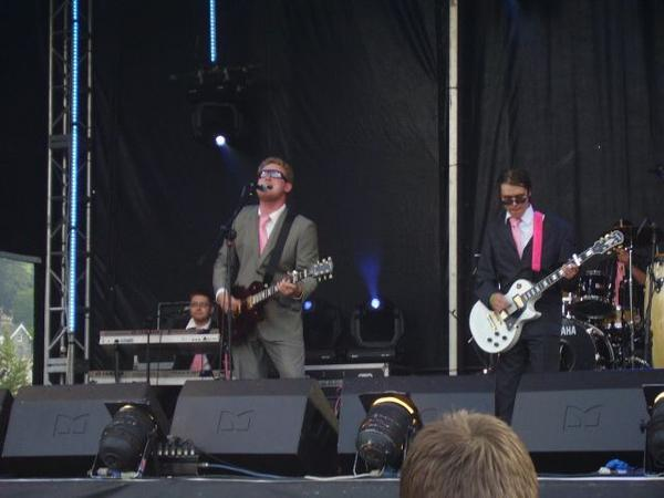 Dan Lloyd a Mr Pinc on stage in 2007